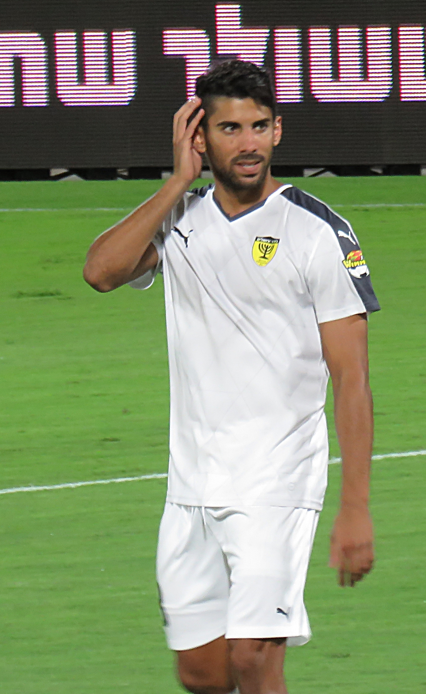 Bnei Yehuda Tel Aviv vs. Beitar Jerusalem - 19 September, 2015